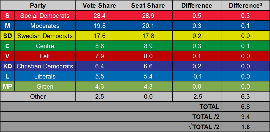 The disproportionality of the Swedish general election, 2018 was 1.8 according to the Gallagher Index